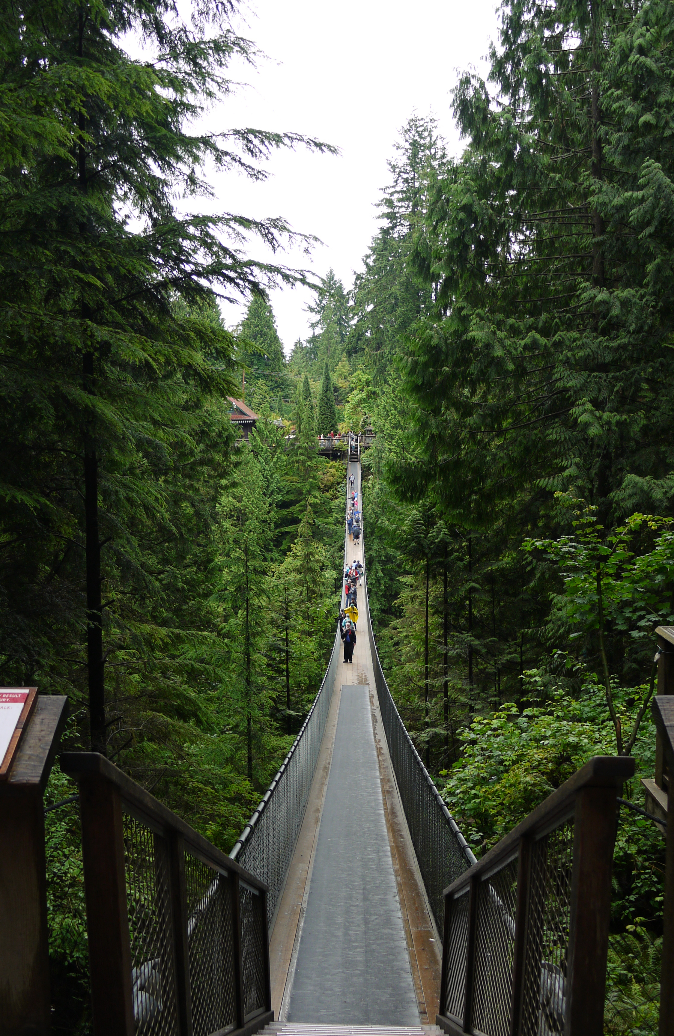 Capilano Suspension Bridge in Vancouver, Canada. Photographed in July 2016.